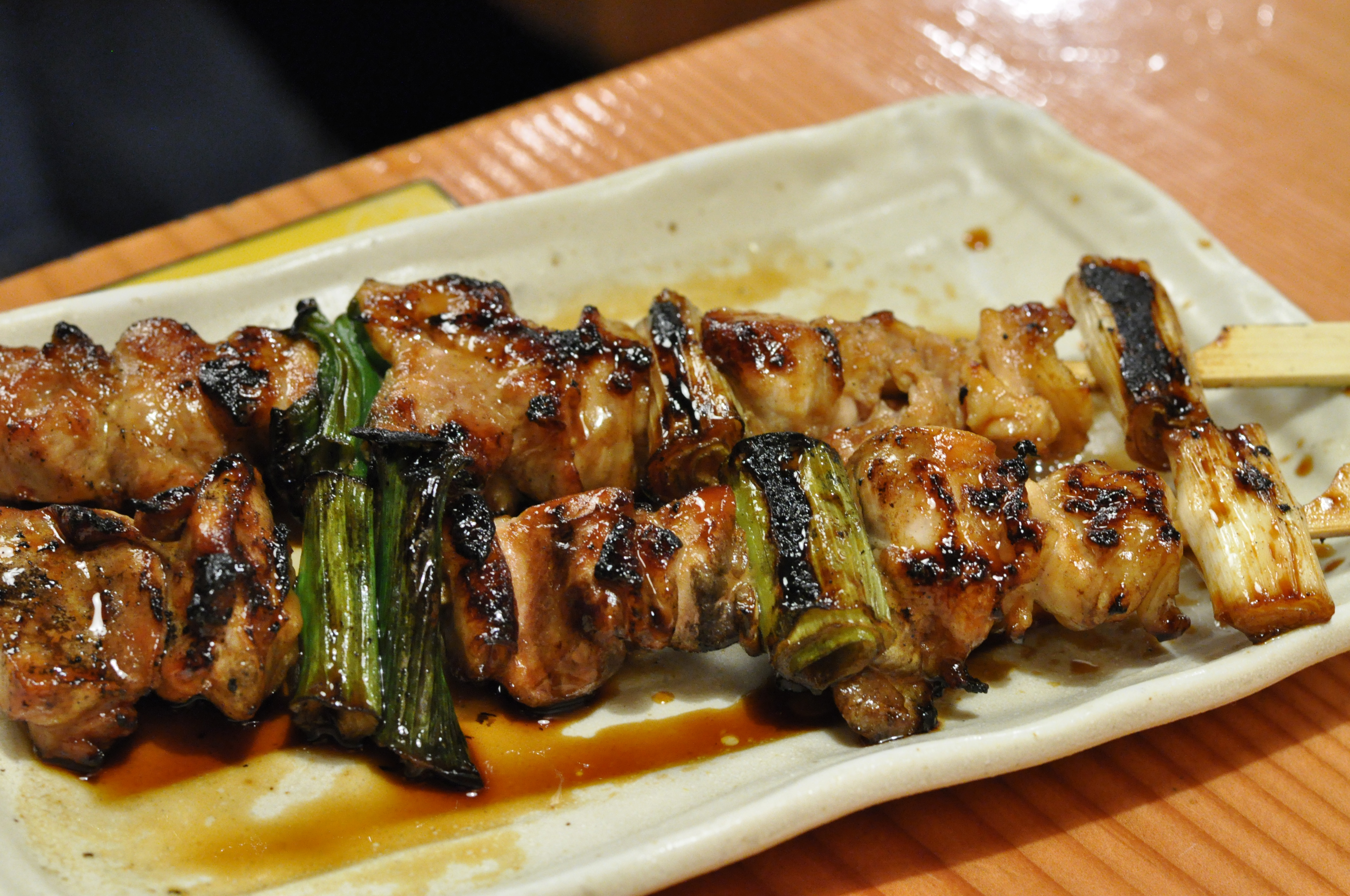 Negima Yakitori